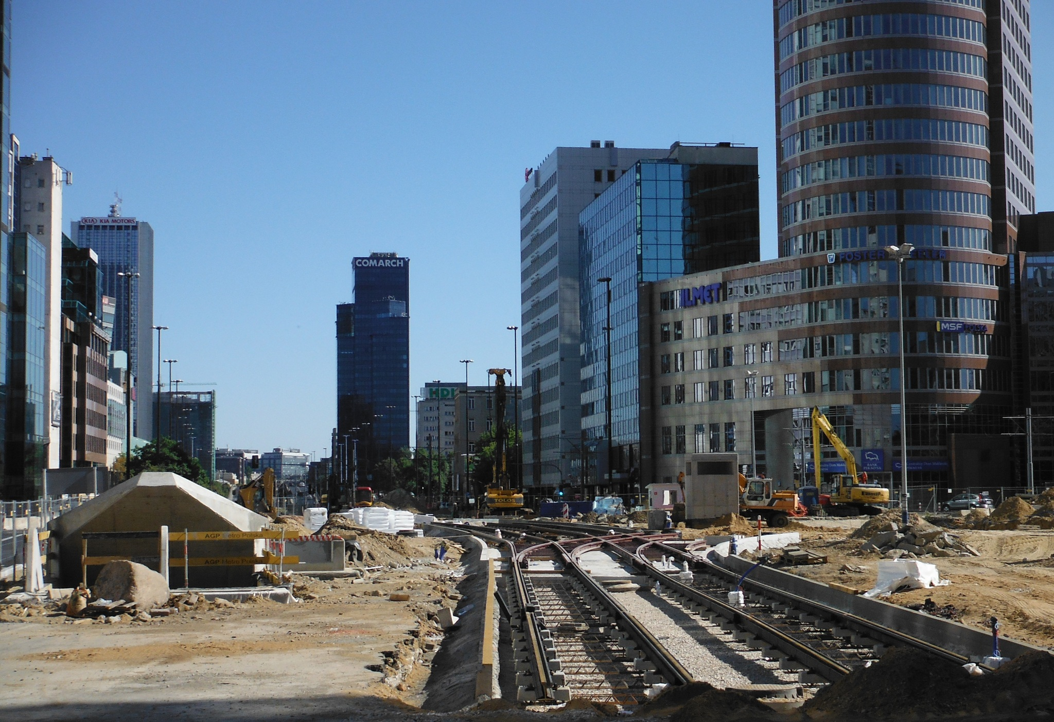 Rondo ONZ metro station (under construction) in Warsaw (3rd of August 2013).